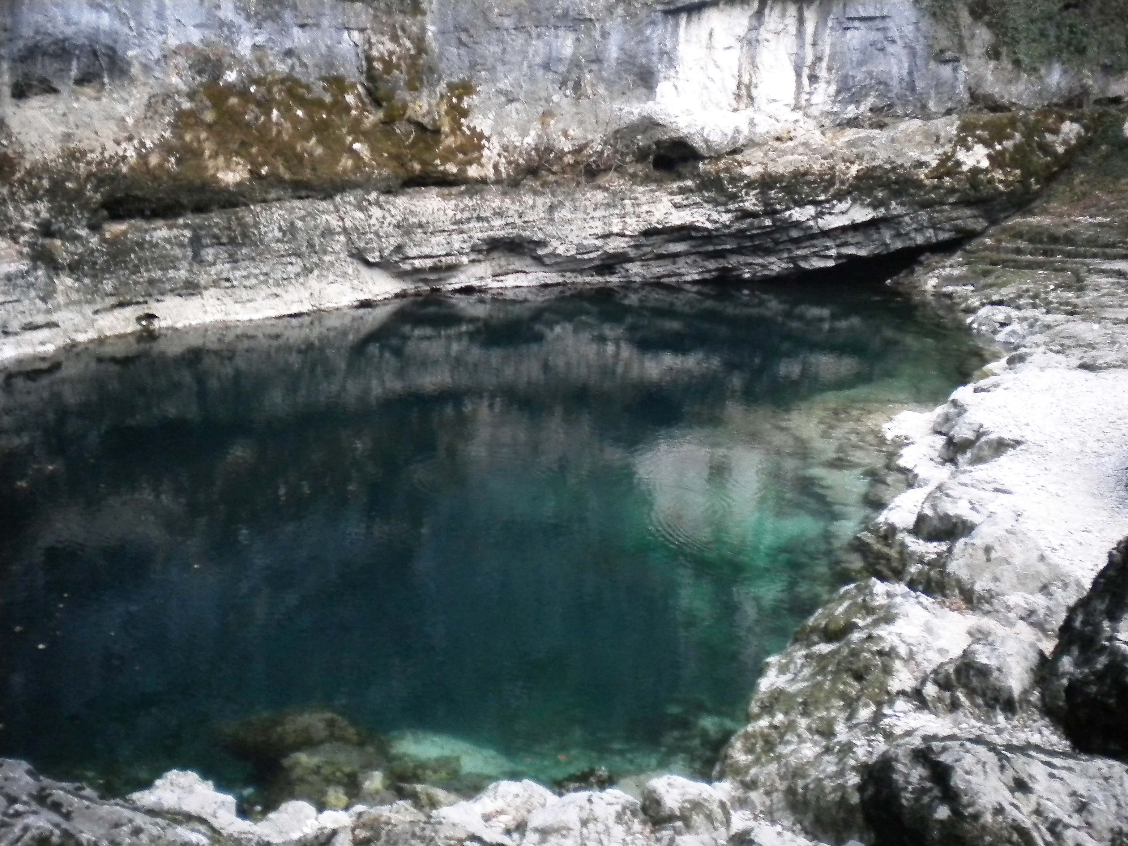 lago subiolo, loc. Fantoli